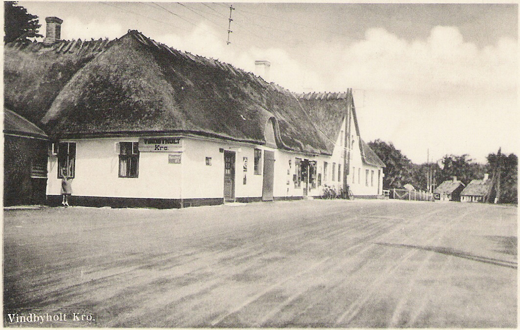 Vindbyholt Kro (inn), Vindbyholt, Faxe Kommune, Denmark